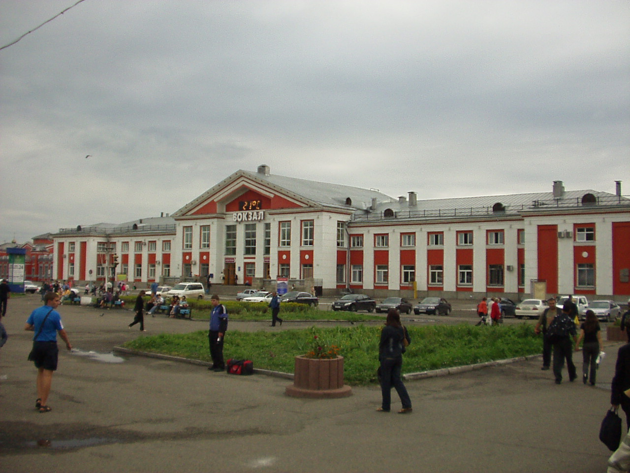 Barnaul railway station